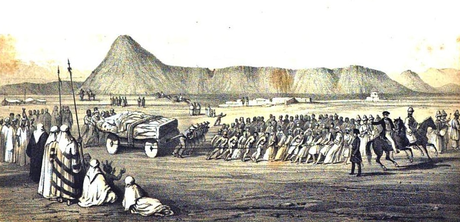 Frontispiece of Nineveh and its Remains, by Austen Henry Layard, 1849. sketch of Layard's expedition transporting a Lamassu